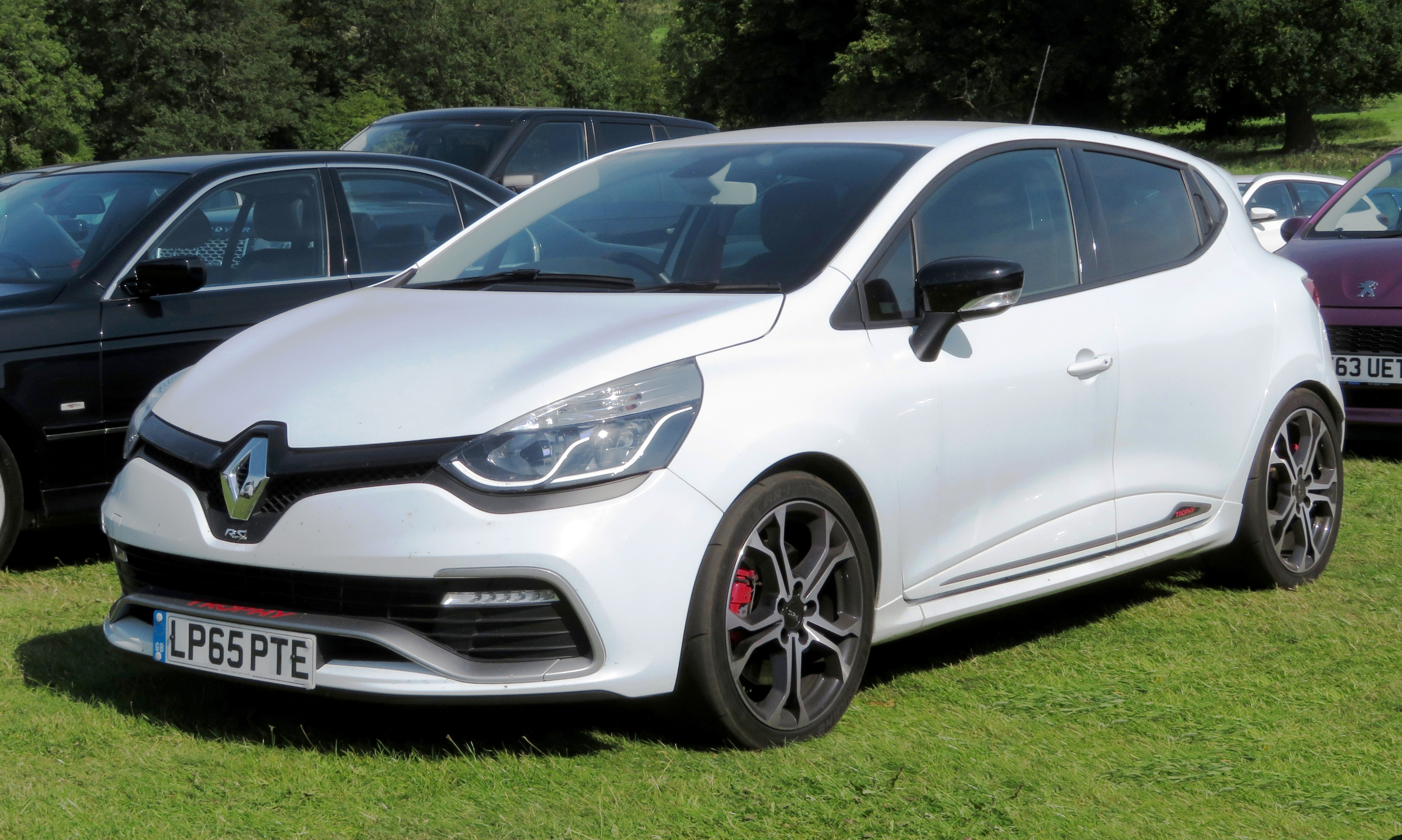 Renault Clio RS (2016)